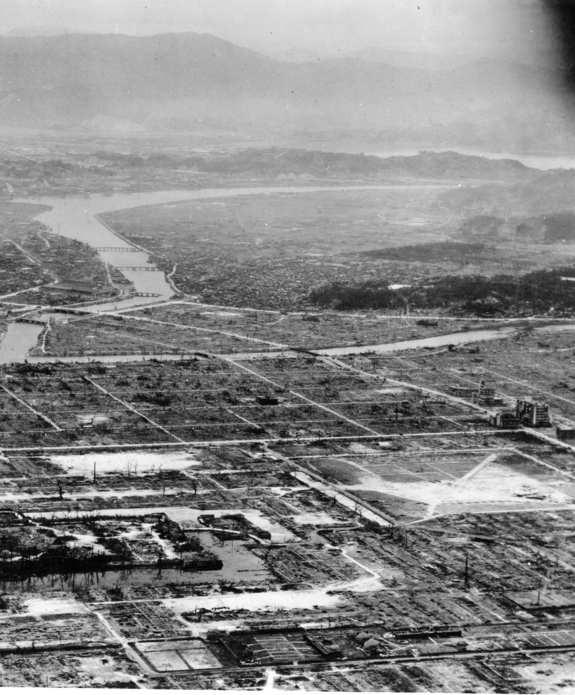 PictionID:38274394 - Catalog:AL-135B 270 - Filename:AL-135B 270.tif - This image is from a photo album donated to the Museum by JL Highfill-----------PLEASE TAG this image with any information you know about it, so that we can permanently store this data with the original image file in our Digital Asset Management System.-----------------SOURCE INSTITUTION: San Diego Air and Space Museum Archive